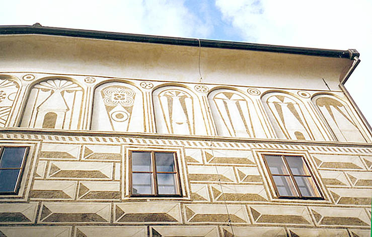 Klášterní Street, Ceský Krumlov, Czech Republic